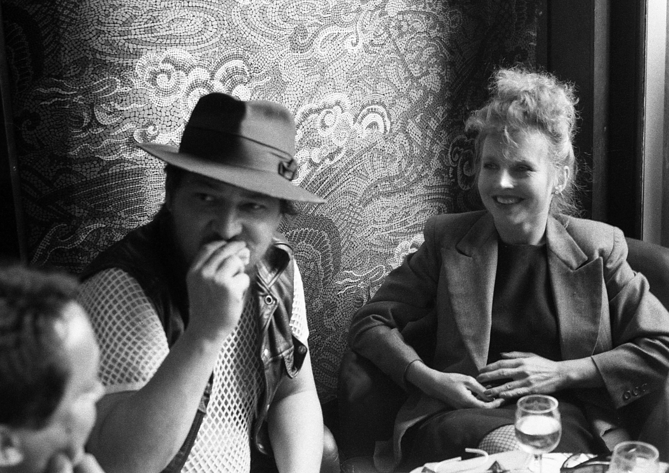 rainer werner fassbinder e hanna schygulla alla mostra del cinema di Venezia del 1980